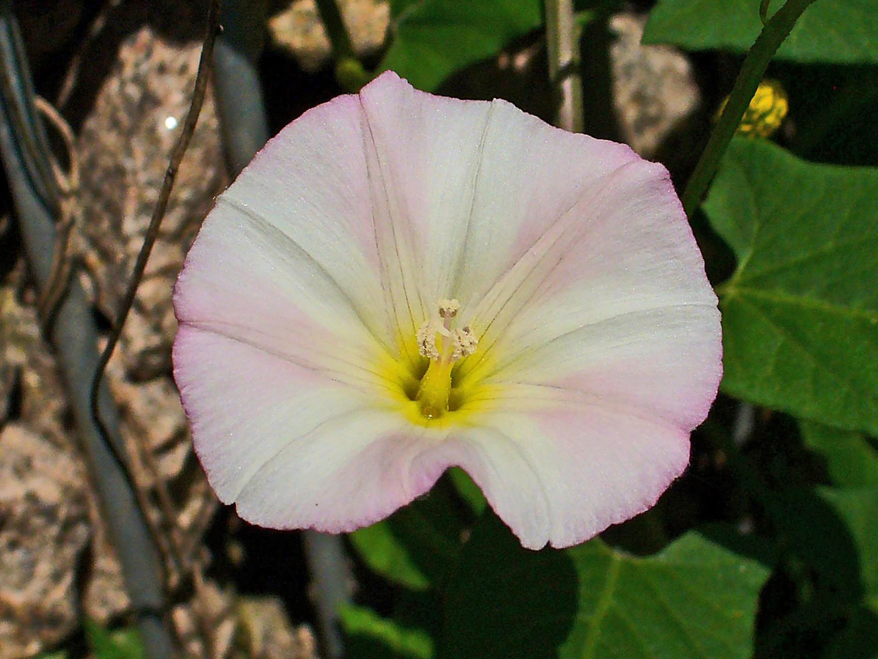 Convolvulus arvensis, Convolvulaceae, Field Bindweed, flower; Karlsruhe, Germany. The fresh aerial parts of the blooming plant are used in homeopathy as remedy: Convolvulus arvensis (Convo-a.)